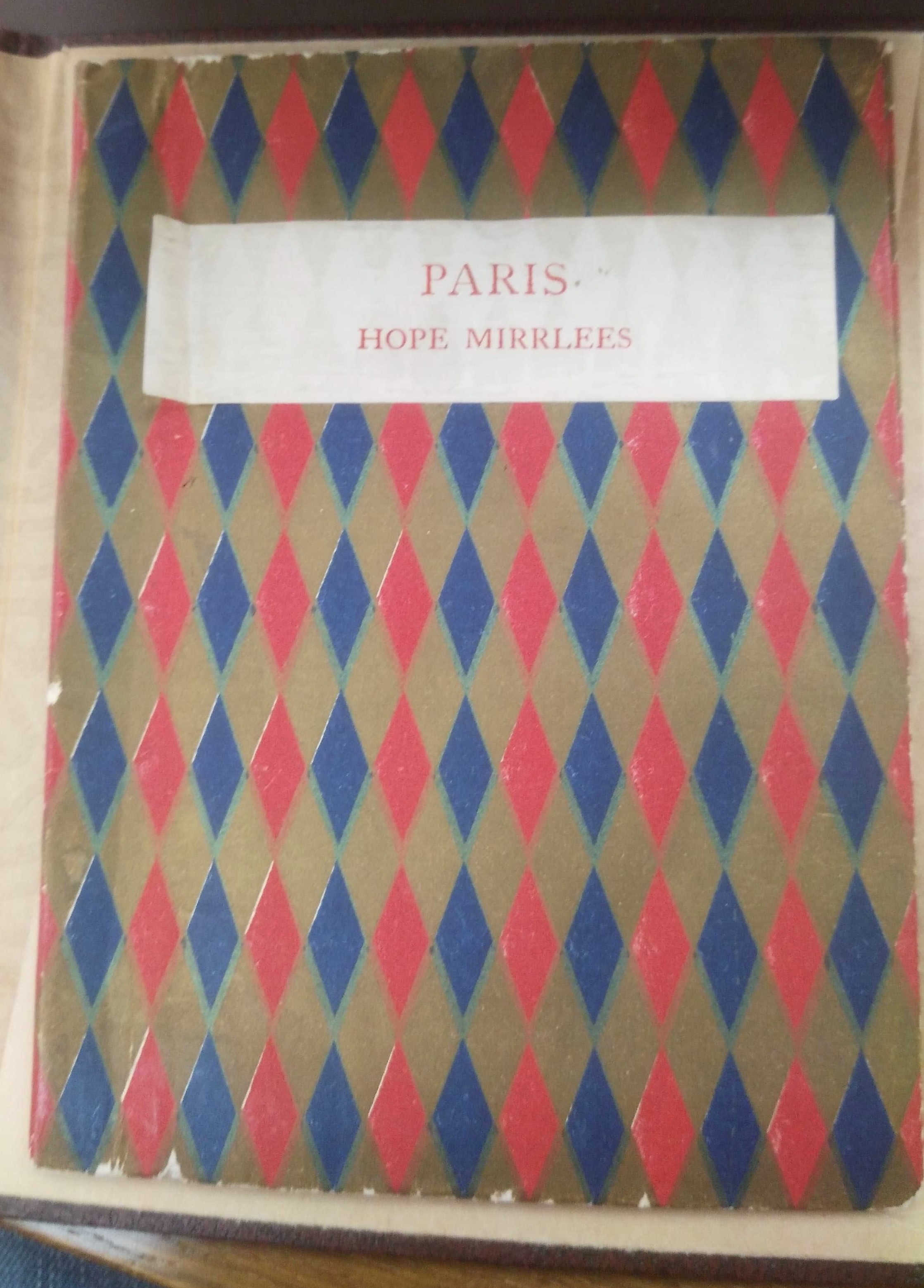 Photo of the cover of a first edition of Paris: A Poem.